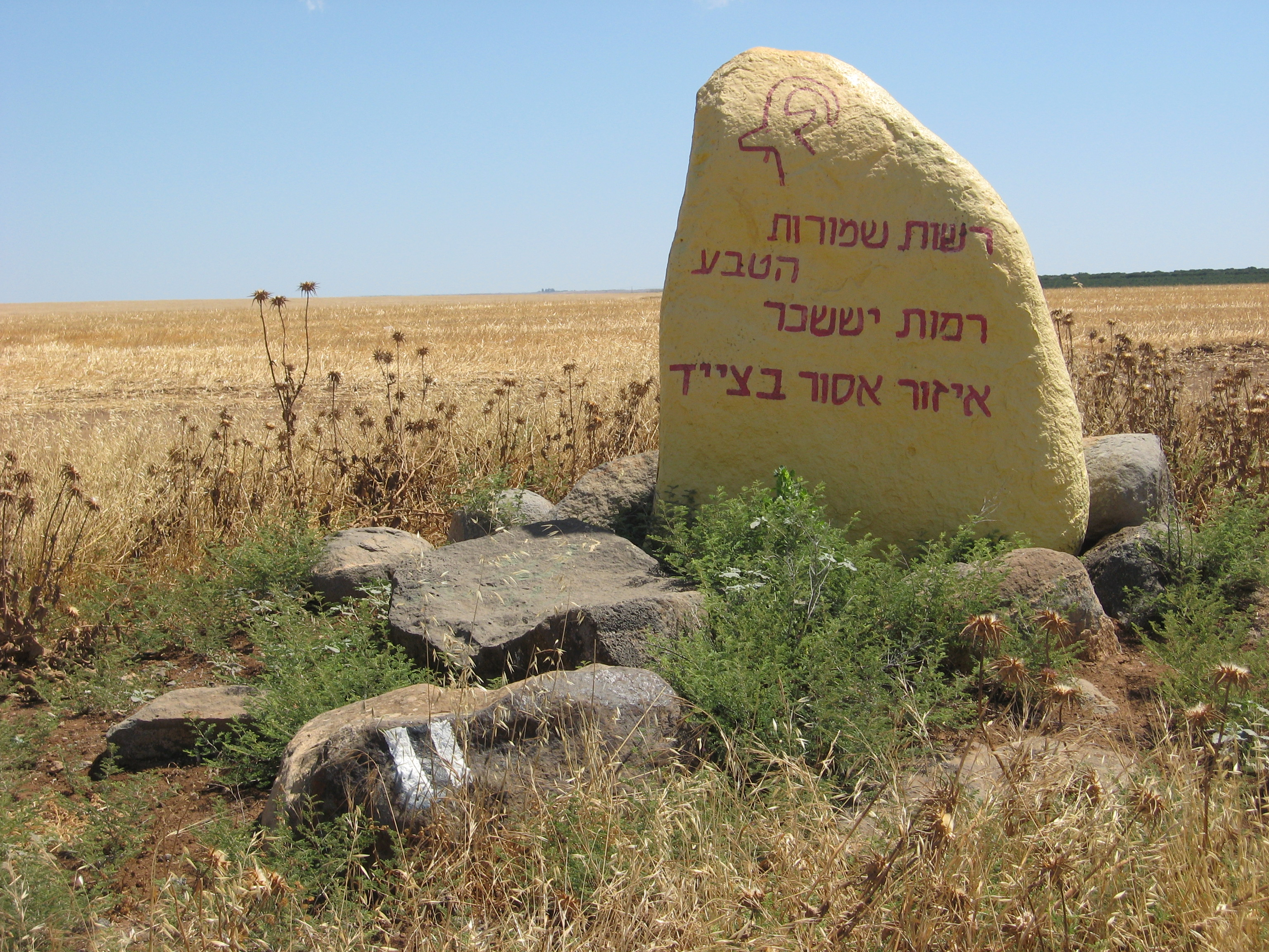 A sign bearing the inscription: Natural Reserves Authority Ramot Yissaḫar A no-hunting area Ramot Yissaḫar, Israel.